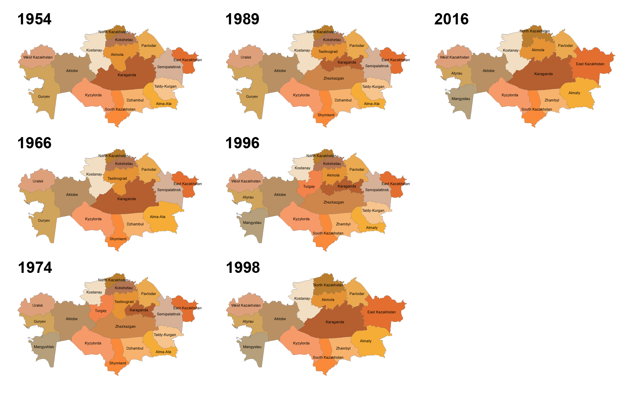 Change of Kazakh Oblast names and boundaries over time